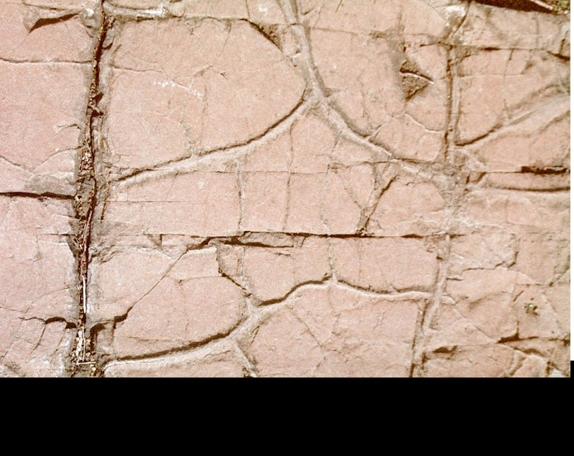 Traprock. Sleeping Giant, Connecticut. by Paul Gagnon, 2000